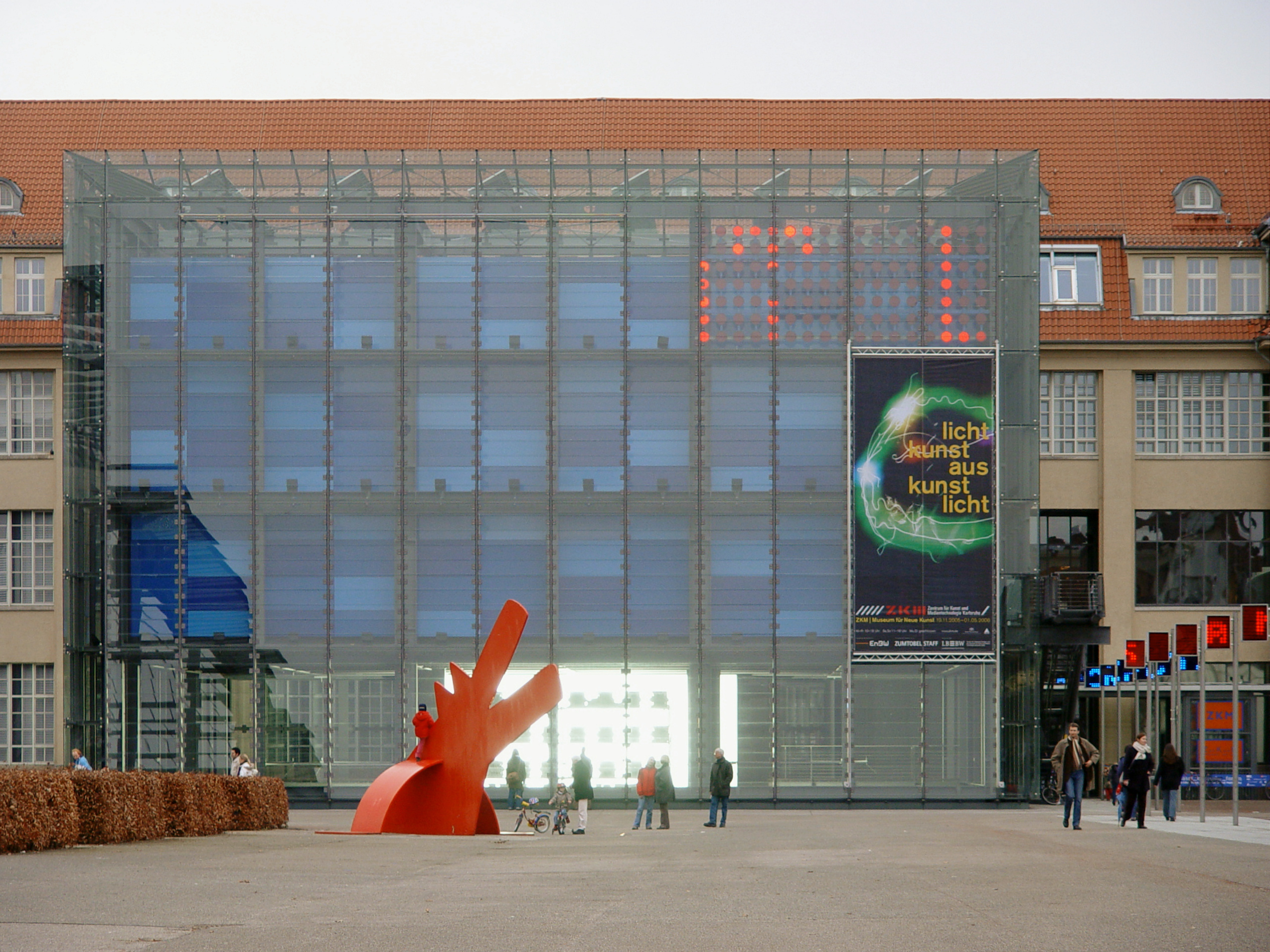 Zentrum für Kunst und Medientechnologie (ZKM) with sculpture Der Rote Hund by Keith Haring in Karlsruhe/Germany Fotografiert von Martin Dürrschnabel. Datum 19.02.2006. Kamera: Sony DSC F717. ZKM Karlsruhe. Datum 19.02.2006.